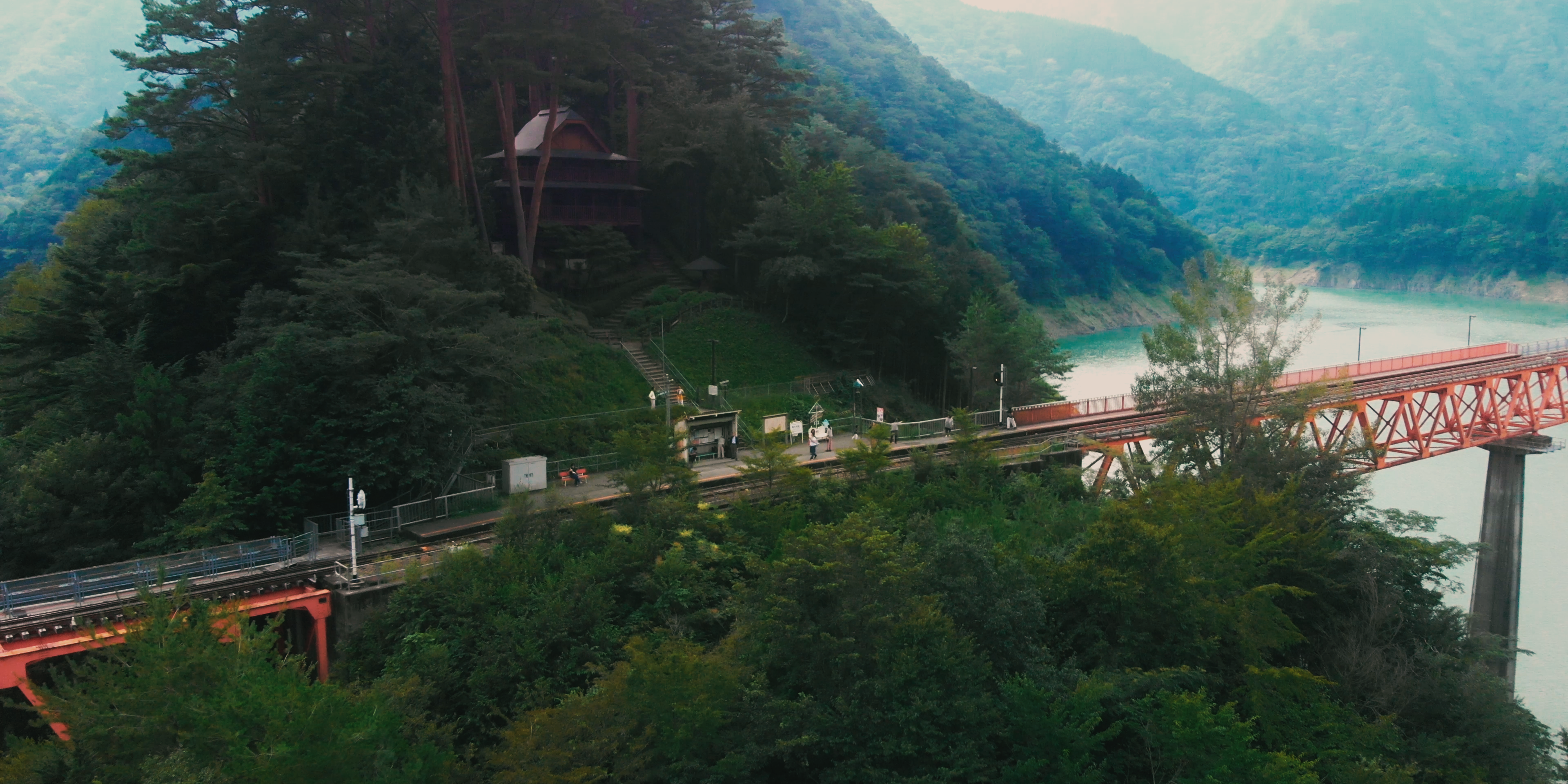 Aerial captured at Mid Sept, 2019 中文（香港）: 2019年9月中旬航拍片段截圖